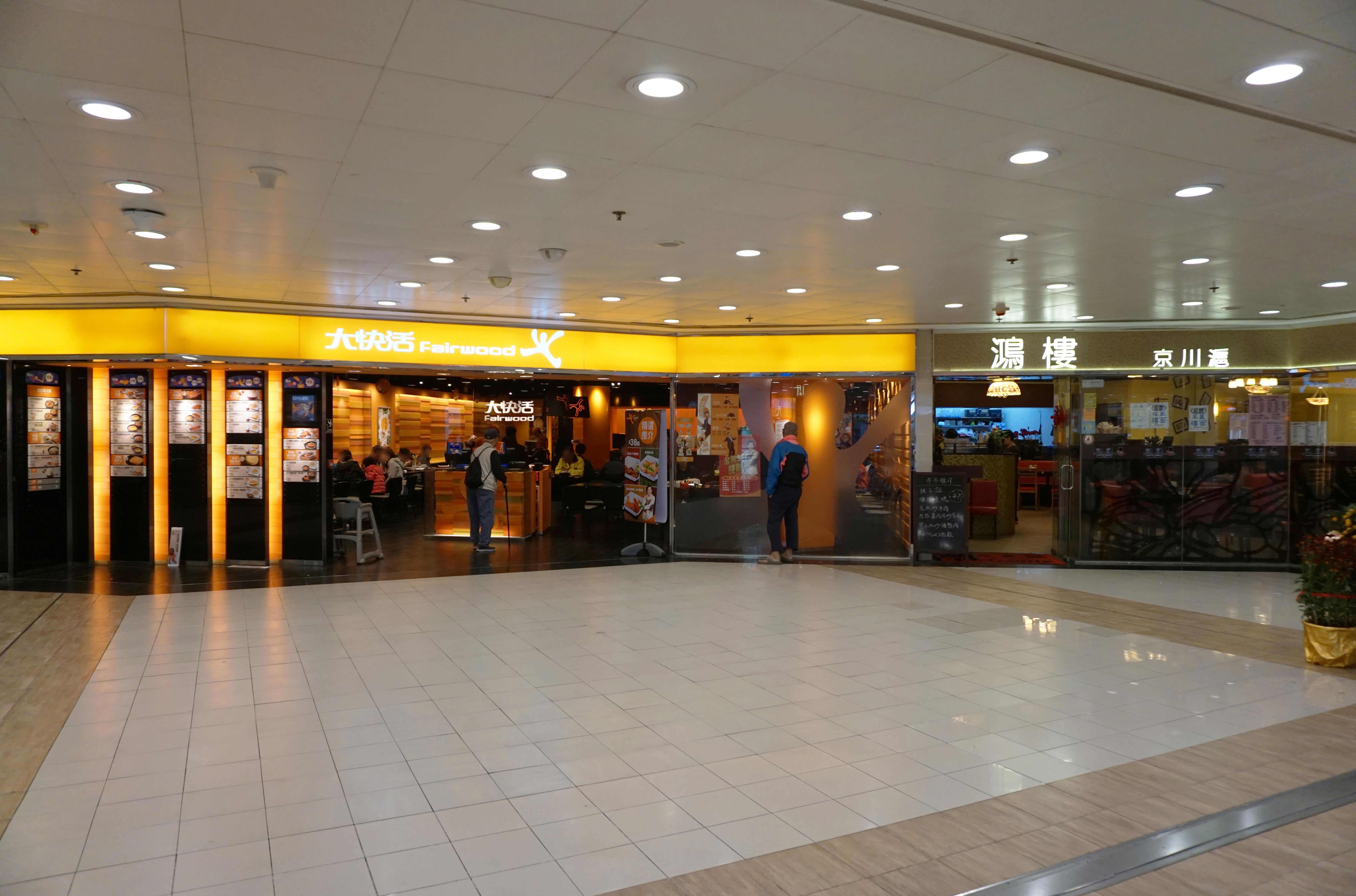 Fu Tai Shopping Centre in Tuen Mun, Hong Kong.